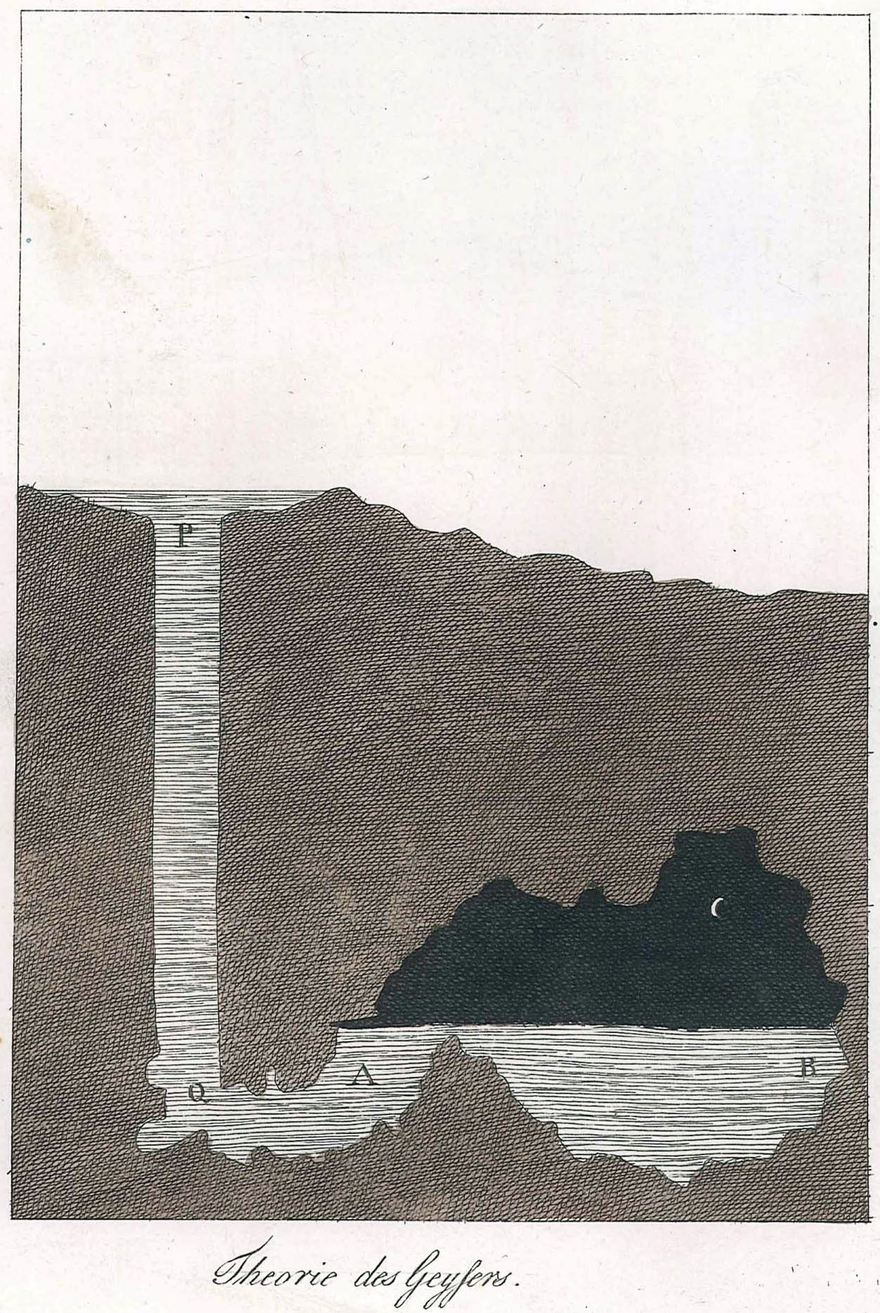 Original drawing of geyser plumbing suggested by Mackenzie.